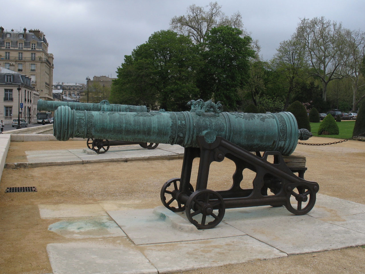 Captured Chinese cannons on display in the front court of Les Invalides in Paris